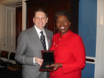 Marc Katz (left), President of the North-American Interfraternity Conference (NIC) presents Rep. Stephanie Tubbs Jones with the NIC Silver Medal. The medal is presented to fraternity and sorority alumni who have provided significant leadership for causes that advance the highest ideals of fraternalism and who champion causes that positively impact the fraternal community. Rep. Tubbs Jones is the first woman representative to be presented with this award